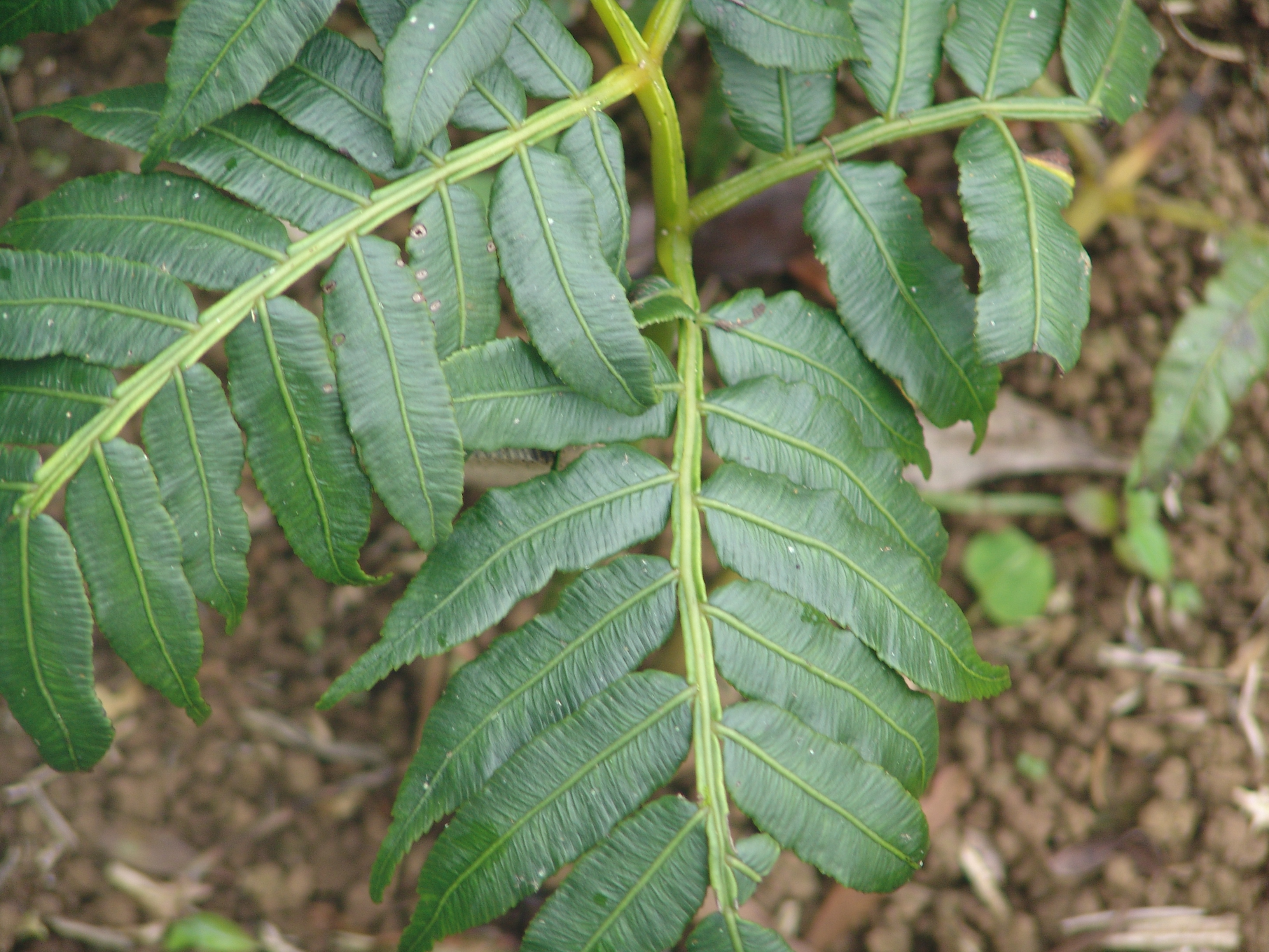 An endemic fern species from Green Mountain, Ascension Island